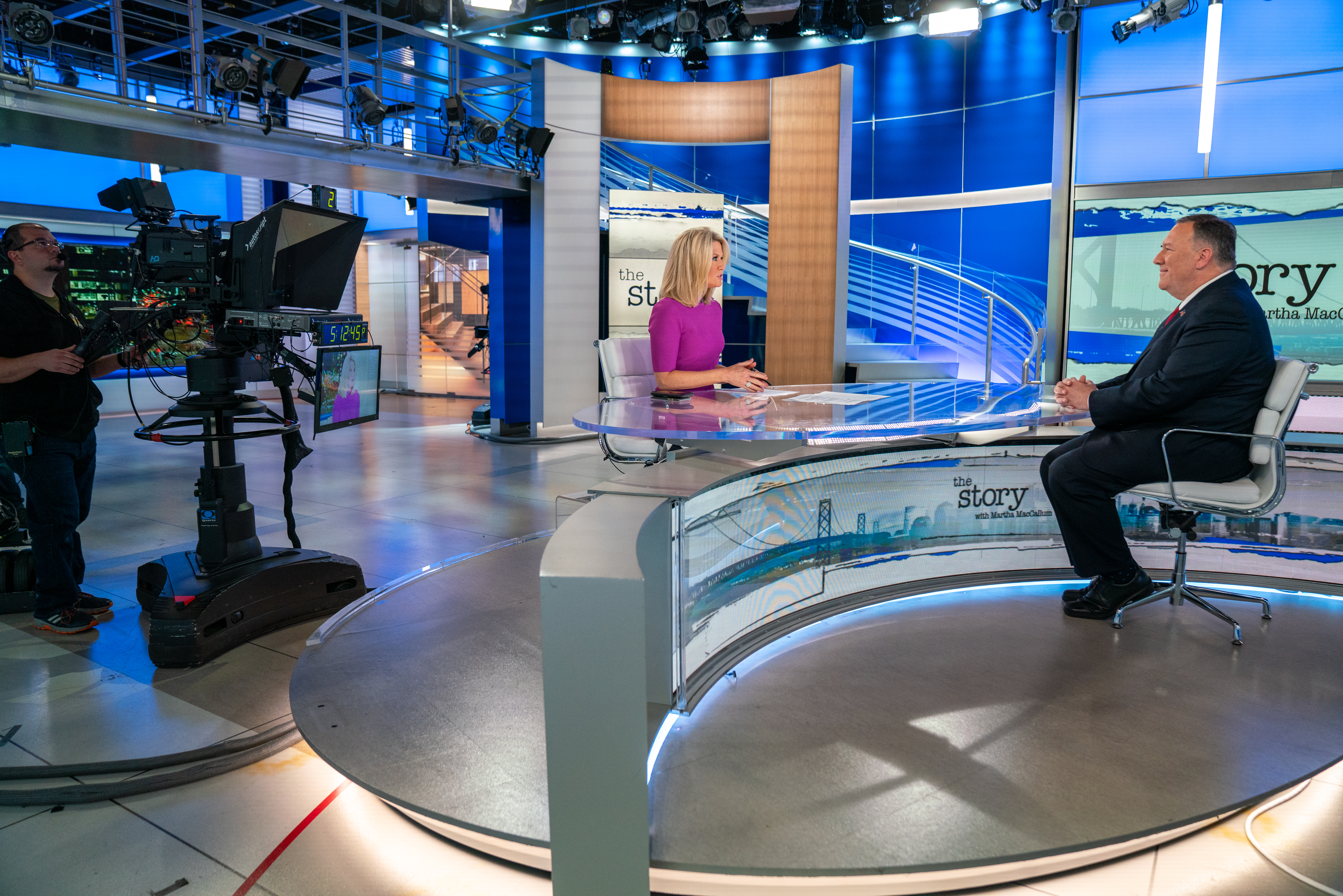 Secretary of State Michael R. Pompeo participates in an interview with Martha MacCallum of Fox News in New York City, New York, on October 30, 2019. [State Department Photo by Ron Przysucha/ Public Domain]